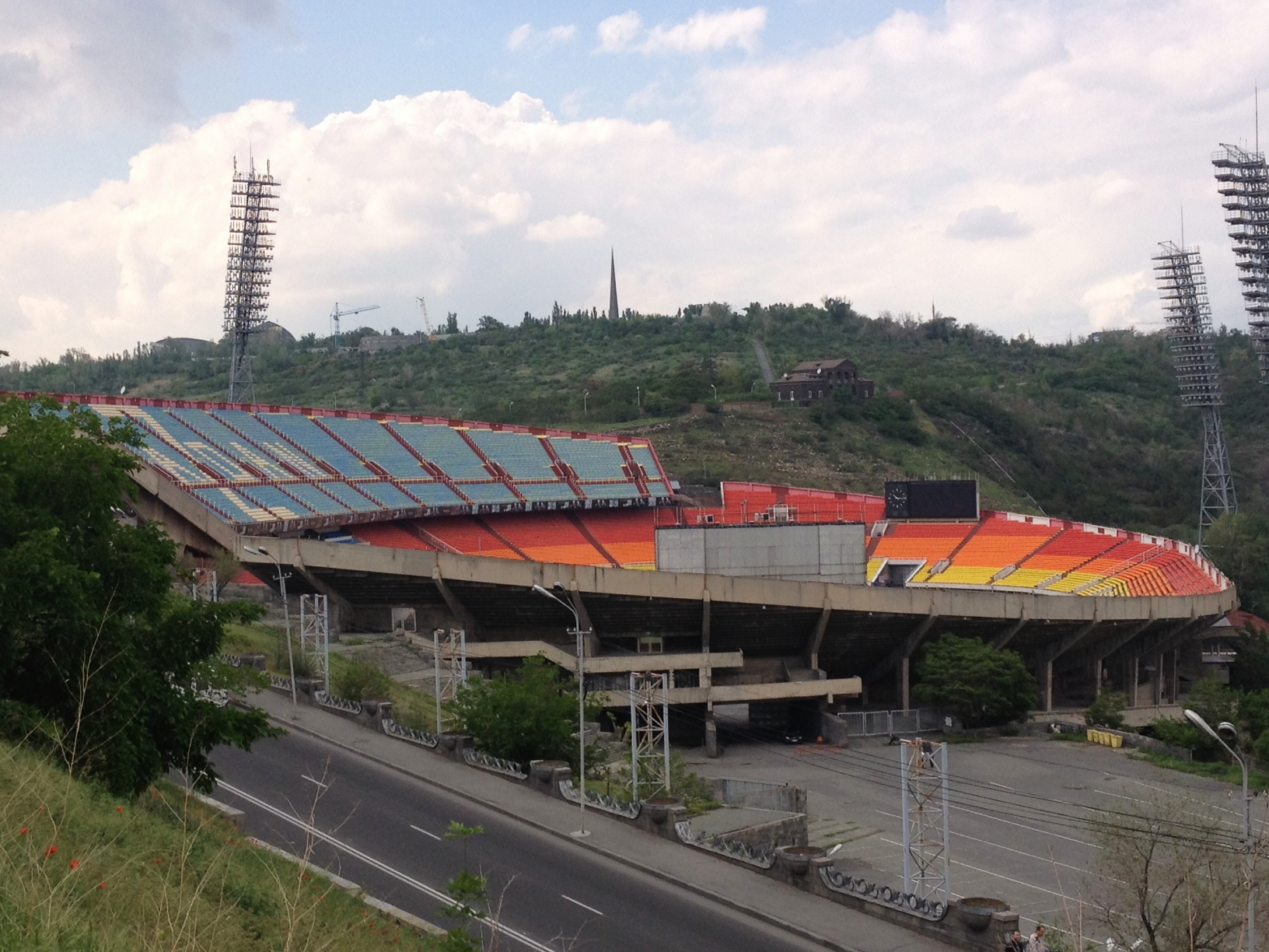 Hrazdan Stadium in Yerevan, Armenia. 2013. Special thanks to Goblin